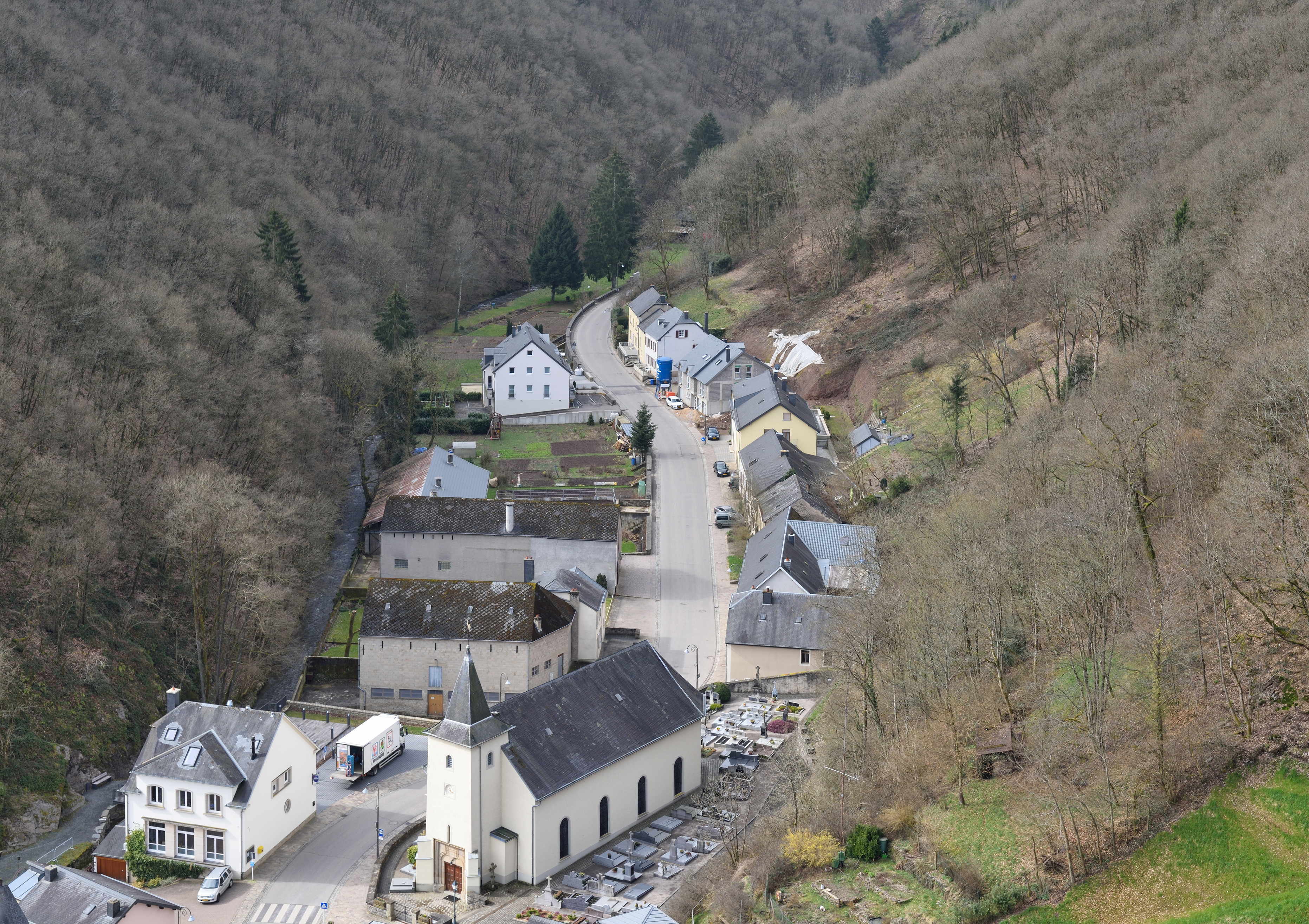 Brandenbourg, Luxembourg, towards the SW as seen from the Brandembourg Castle ruins.